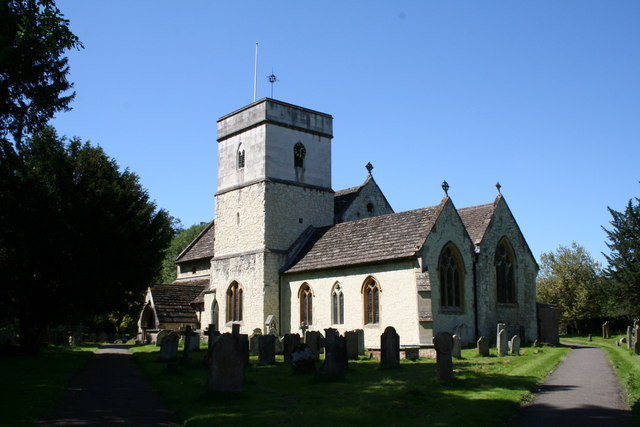 St. Michael's Church, Betchworth, Surrey An ancient and most interesting church that is well worth a visit.